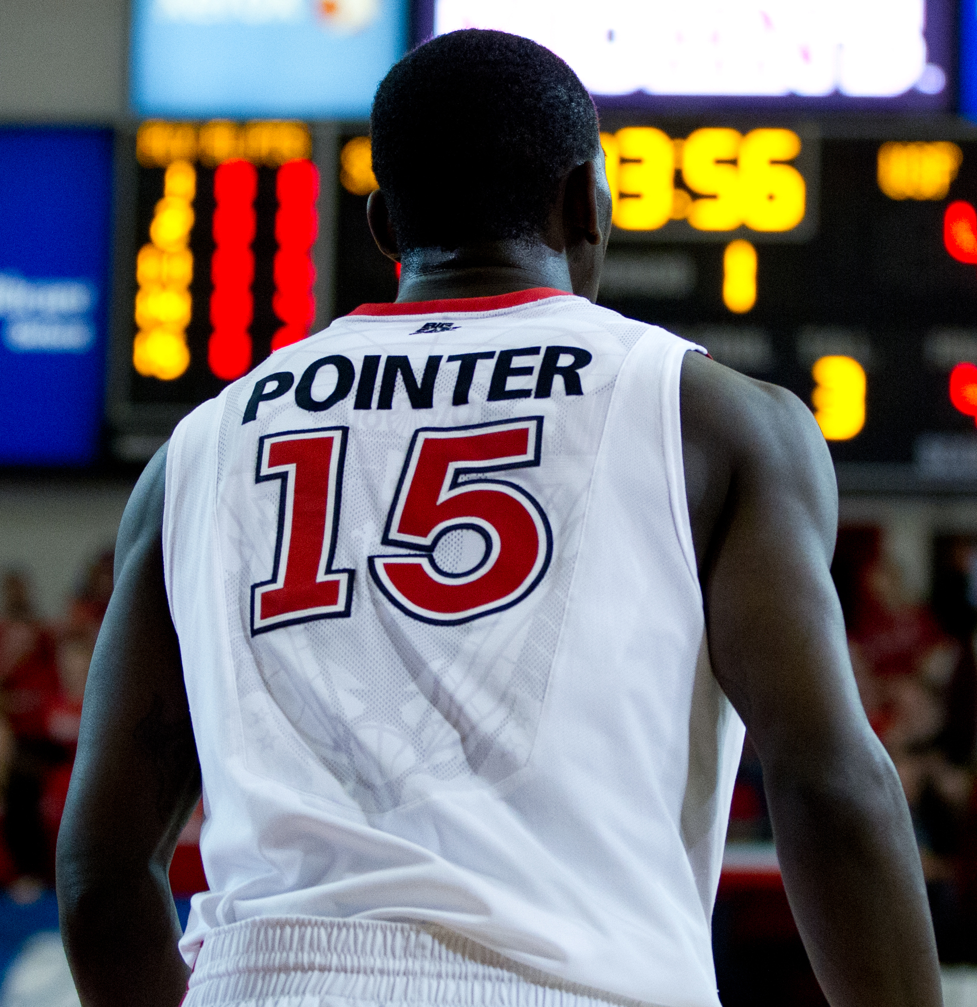 Sir'Dominic Pointer against Florida State in 2013.